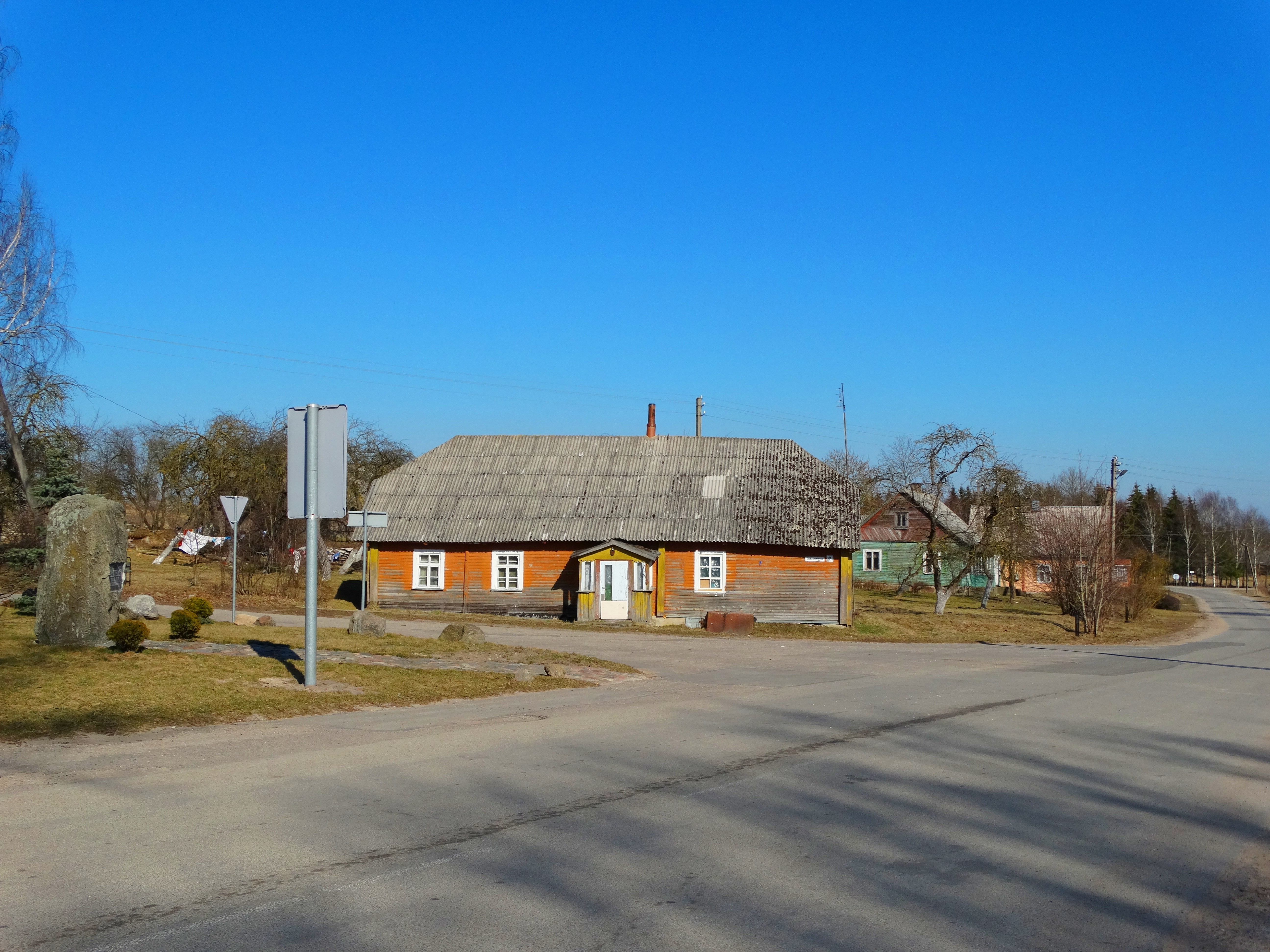 Šaukotas, Radviliškis district, Lithuania